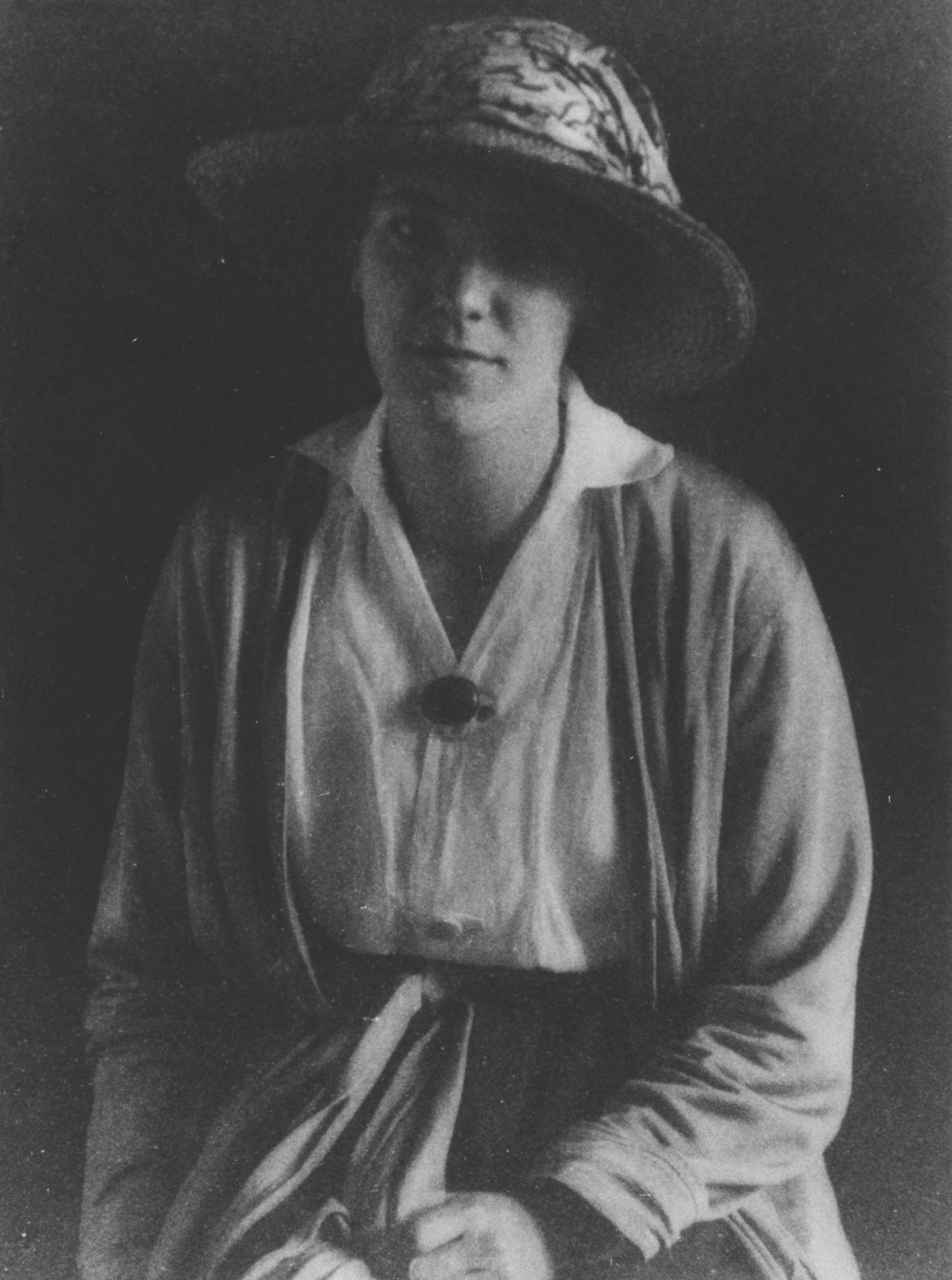 After her Albert Kahn fellowship in the Far East IMAGELIBRARY/249 Persistent URL